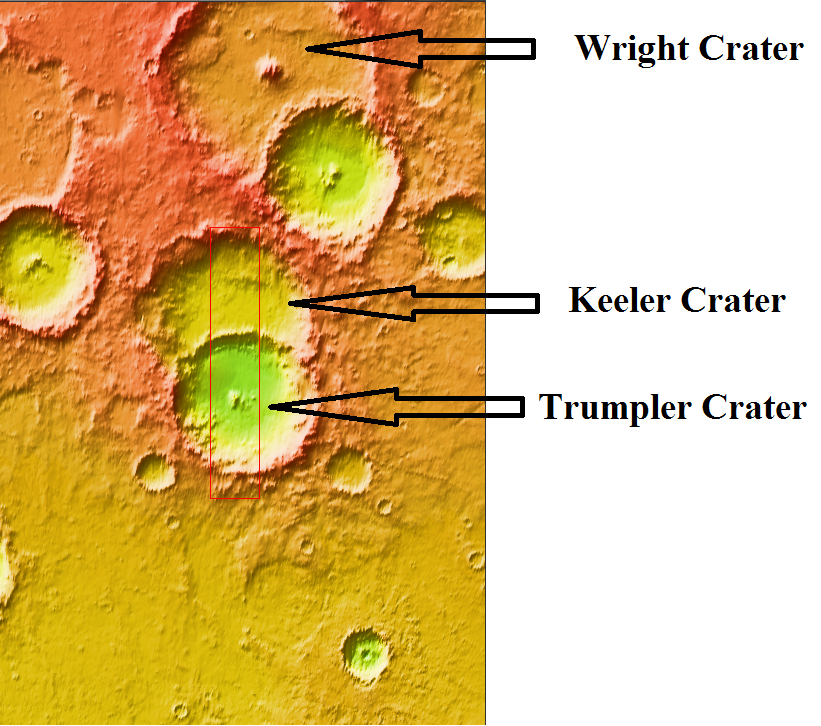 Diagram showing positions of Trumpler Keeler, and Wright Craters, as seen by CTX. In this MOLA image colors show elevations.